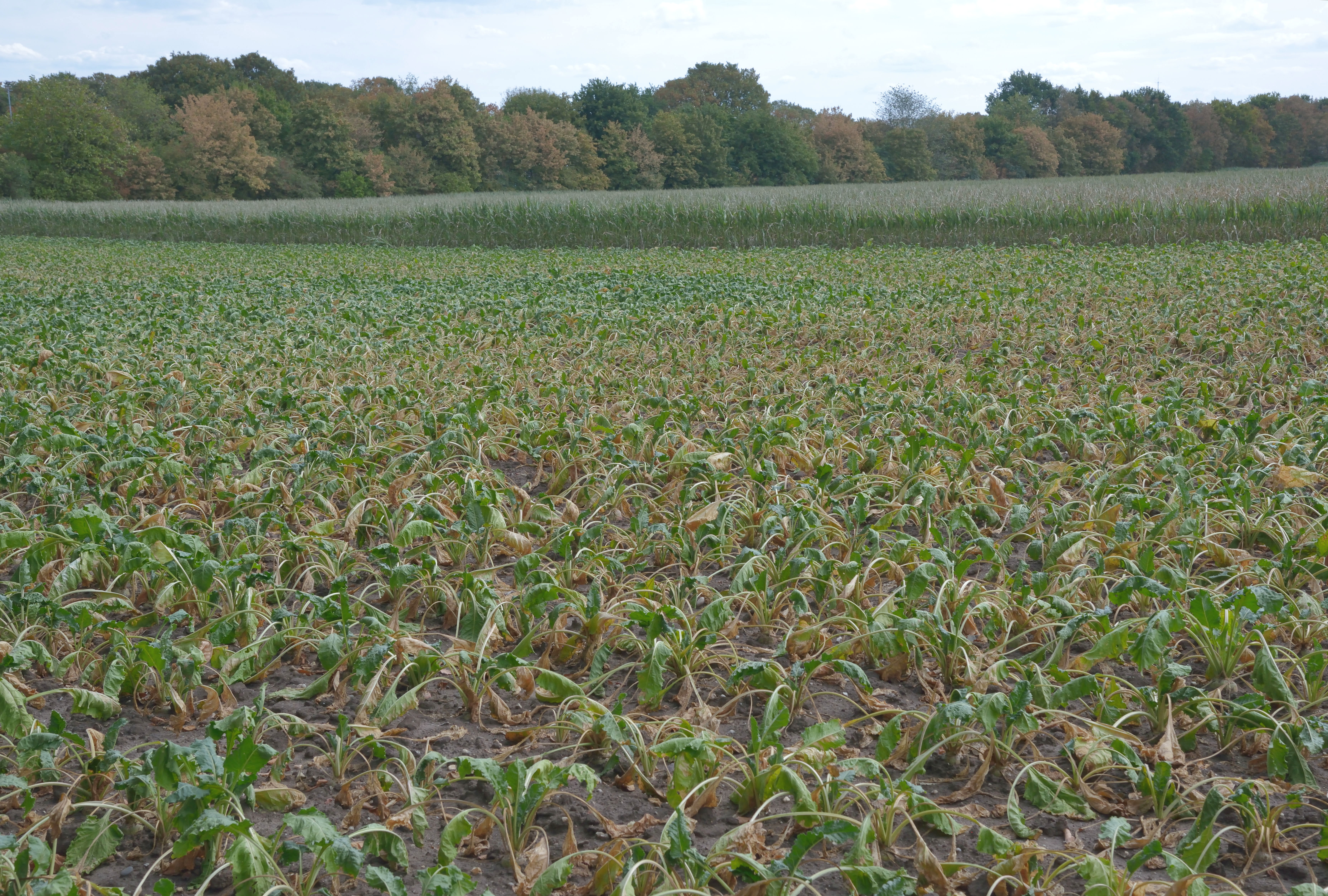 Sugar beets Beta vulgaris subsp. vulgaris var. altissima drought